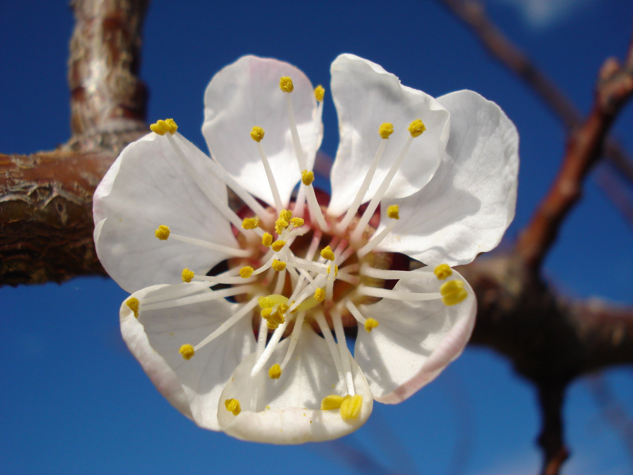 Rakovsky variety apricot blossom in an orchard in Medjimurje County, Croatia